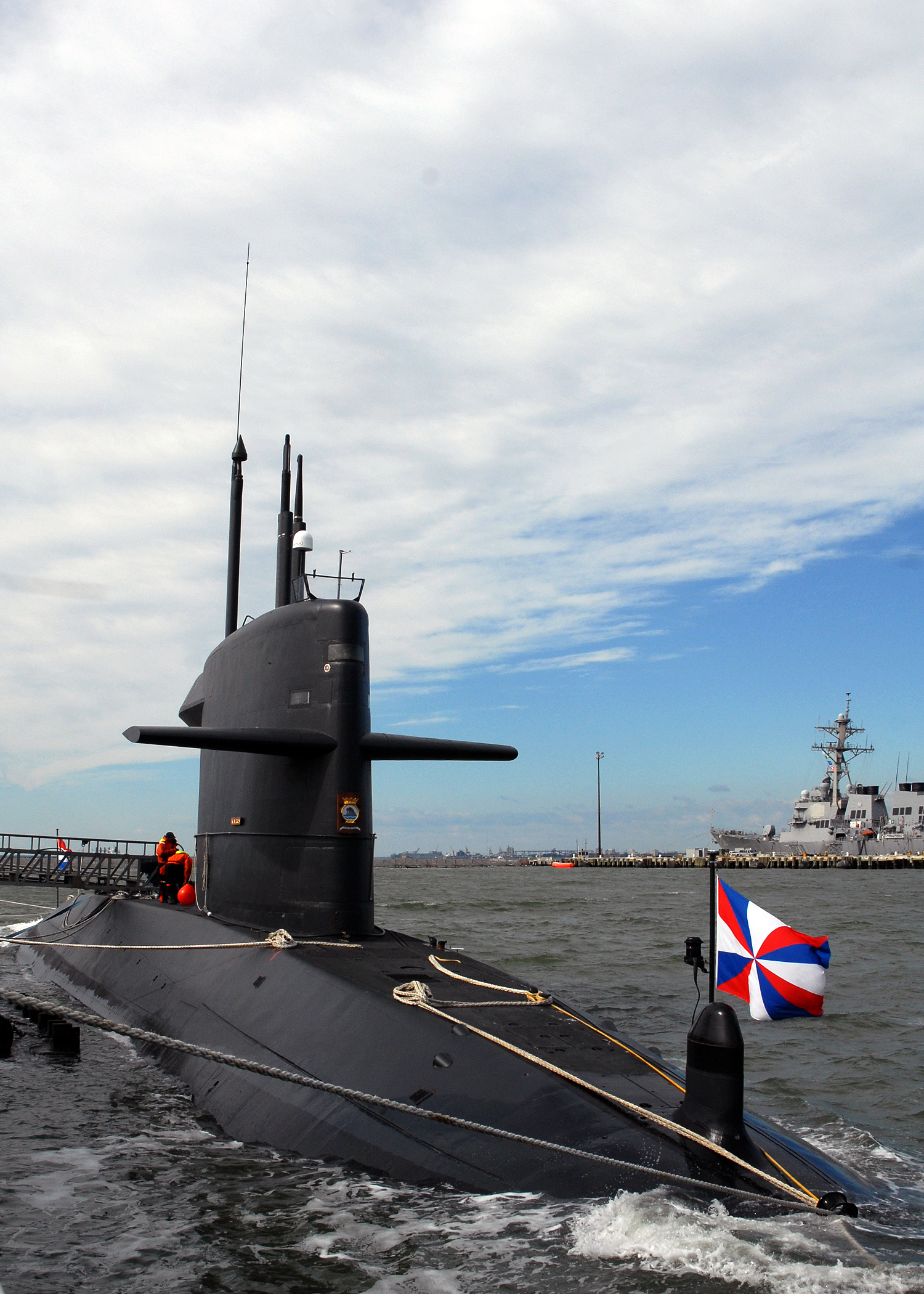 The Dutch submarine HNLMS Walrus (SSK S802) is moored pierside at Naval Station Norfolk. U.S. and Dutch naval forces participated in TACDEVEX 08-08 in the Cape Cod operation areas. During the eight-day exercise, a number of torpedoes were employed to evaluate U.S. tactics and weapons against a modern SSK in a challenging environment.